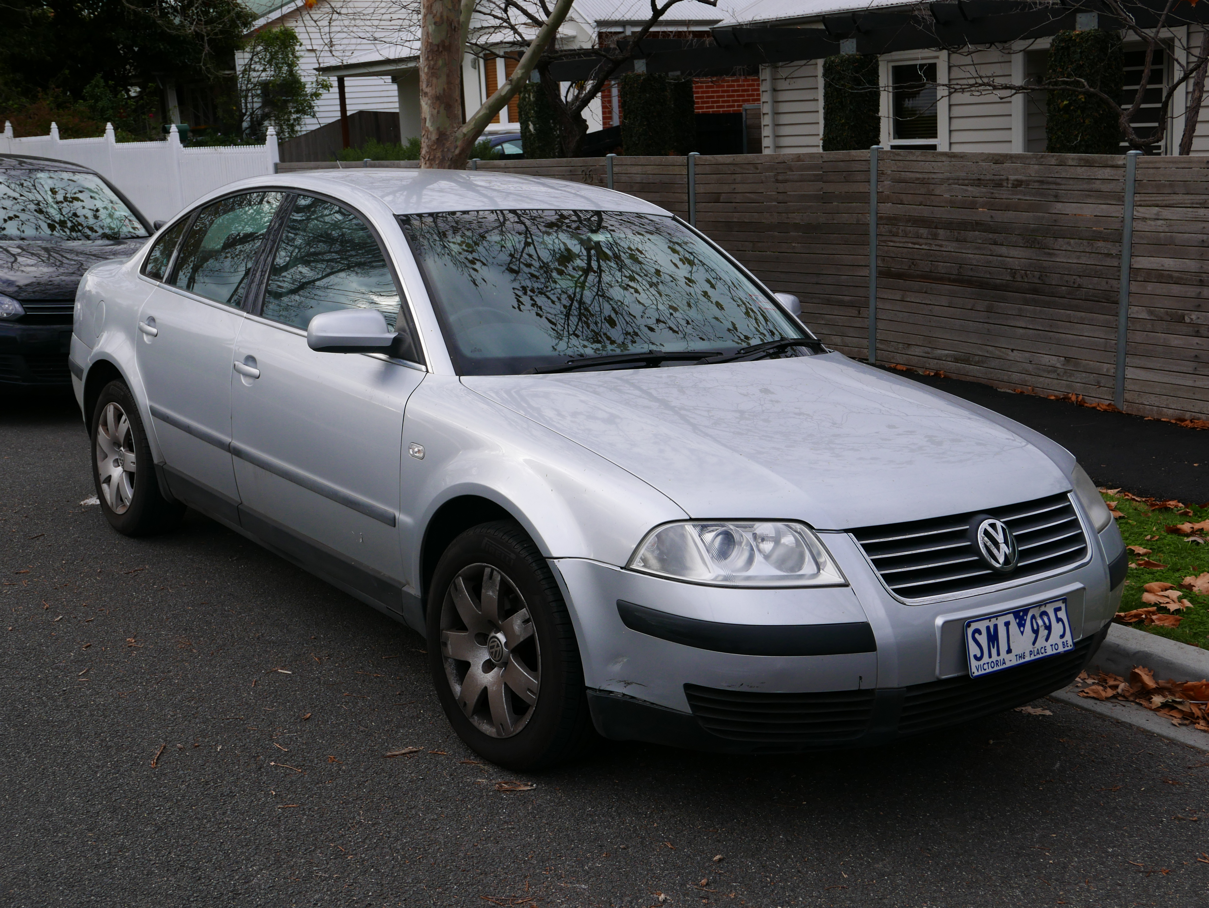 2003 Volkswagen Passat (3BG MY03) S V5 sedan. Photographed in Northcote, Victoria, Australia. Vehicle registration enquiry results Jurisdiction Victoria Registration SMI995 Chassis code WVWZZZ3BZ3P330580 Engine code AZX017132 Compliance date 2003-10 Year of manufacture 2003